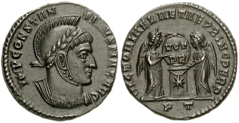 Constantine I. AD 307/310-337. Æ Follis (16mm, 2.93 g, 6h). Ticinum mint, 1st officina. Struck AD 318-319. IMP CONSTAN-TINUS MAX AUG, Laureate, helmeted, and cuirassed bust right; VICTORIAE LAETAE PRINC PERP Two Victories standing vis à vis, together holding shield inscribed VOT/PR in two lines on altar; * in altar; PT in exergue.